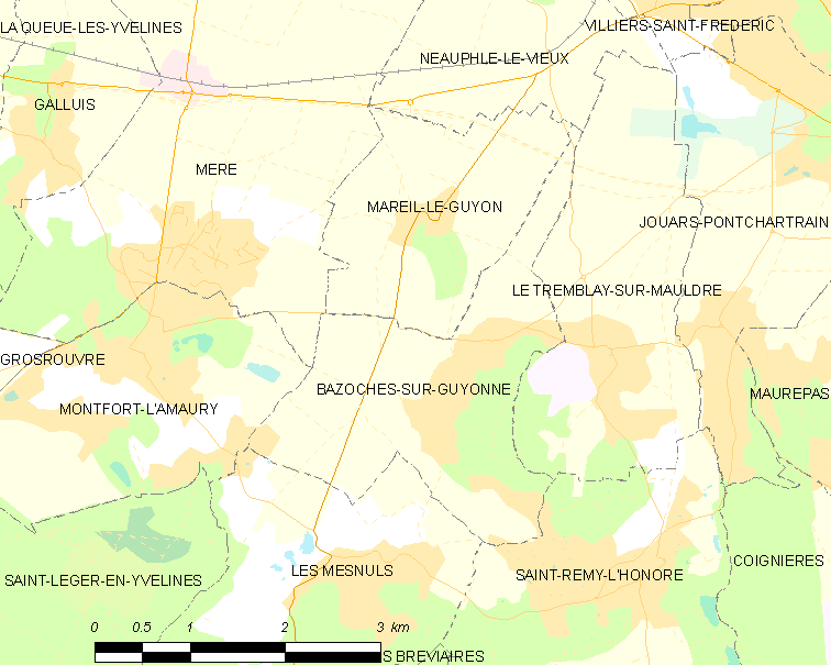 Map of French municipality Bazoches-sur-Guyonne